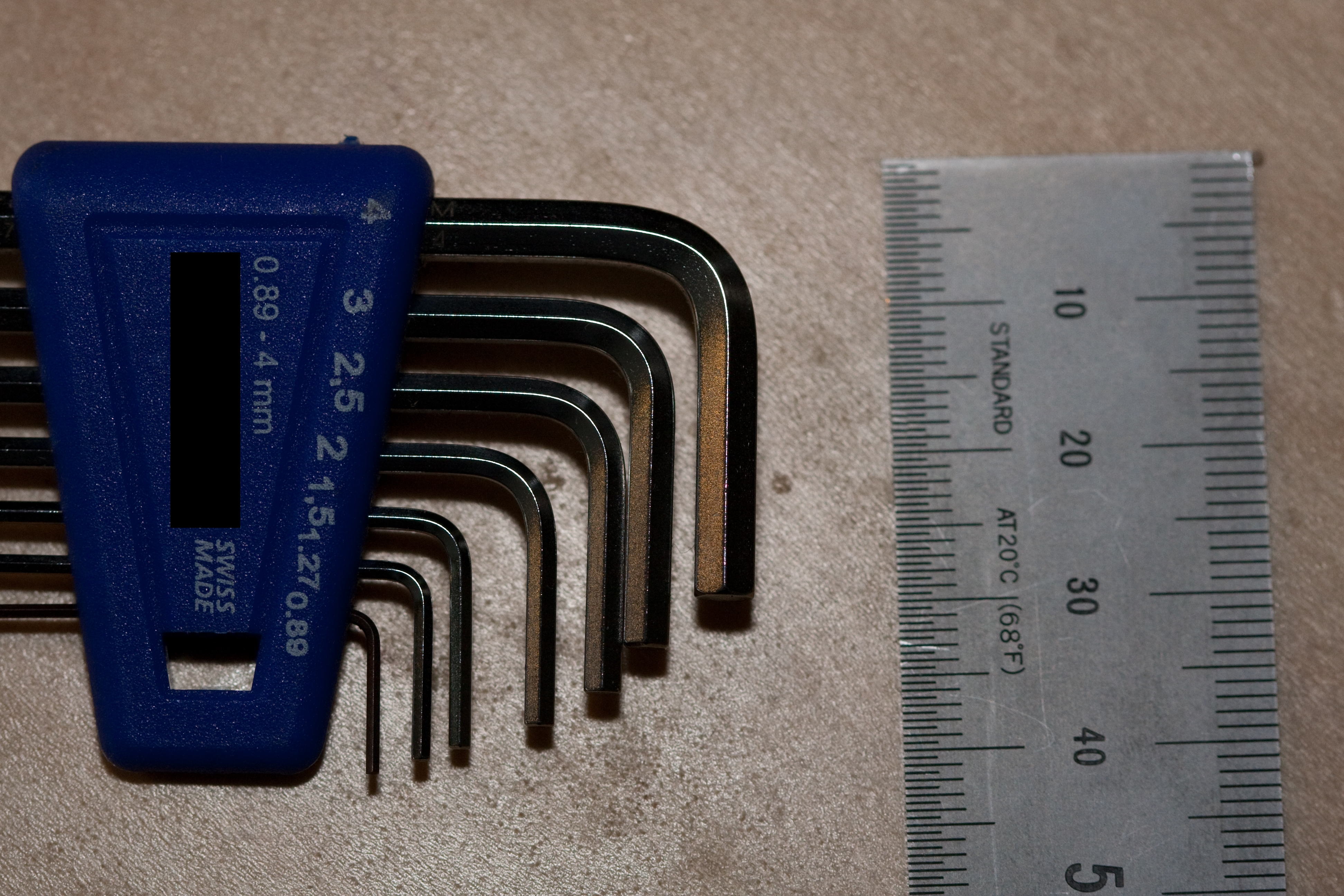 example of hex kex odd sizes.